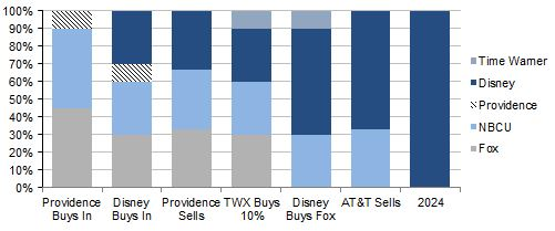 Bar chart showing the historical ownership structure of Hulu